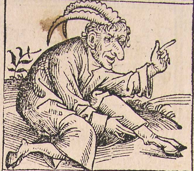 Hoof Man